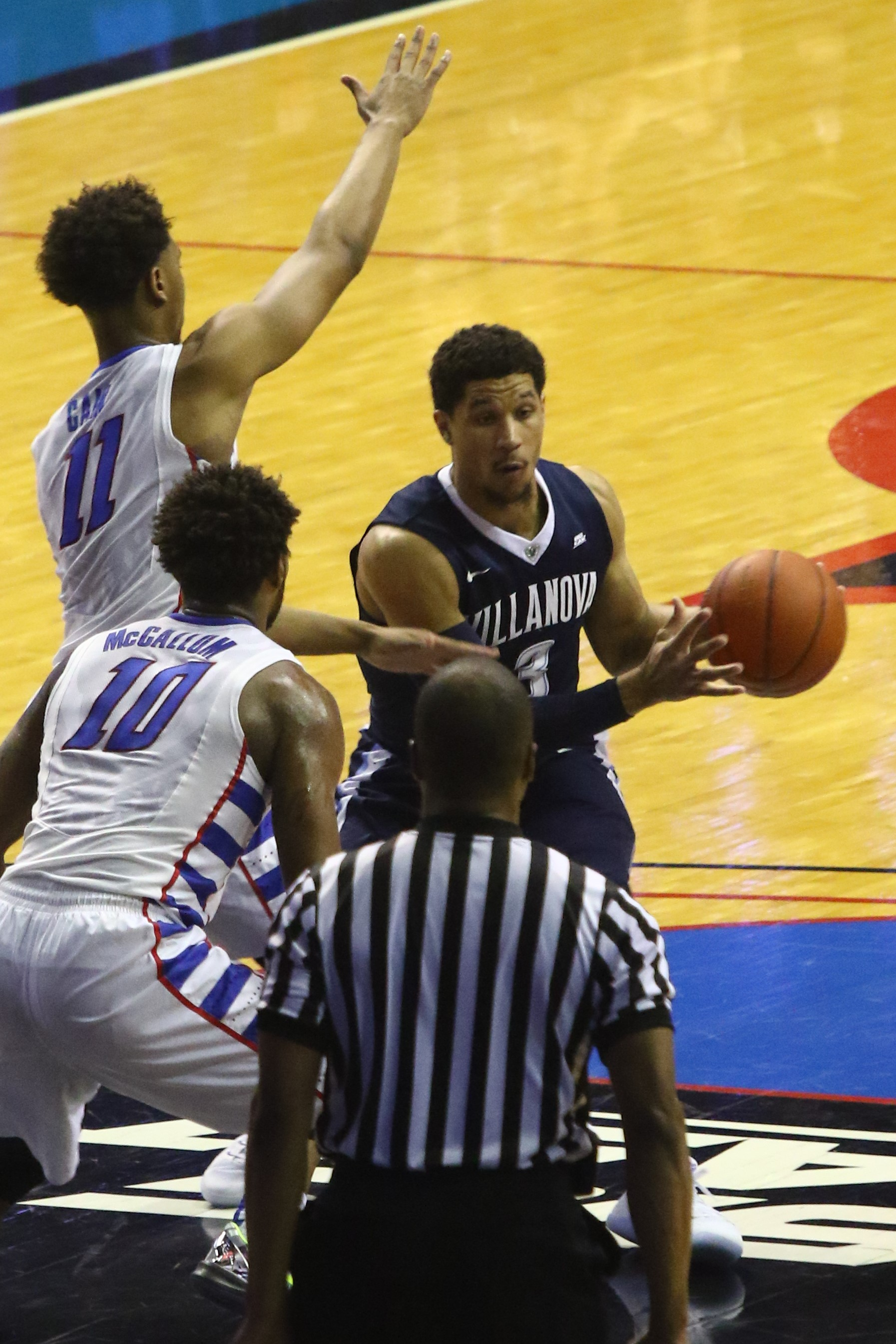 Josh Hart for the w:2016–17 Villanova Wildcats men's basketball team at Allstate Arena